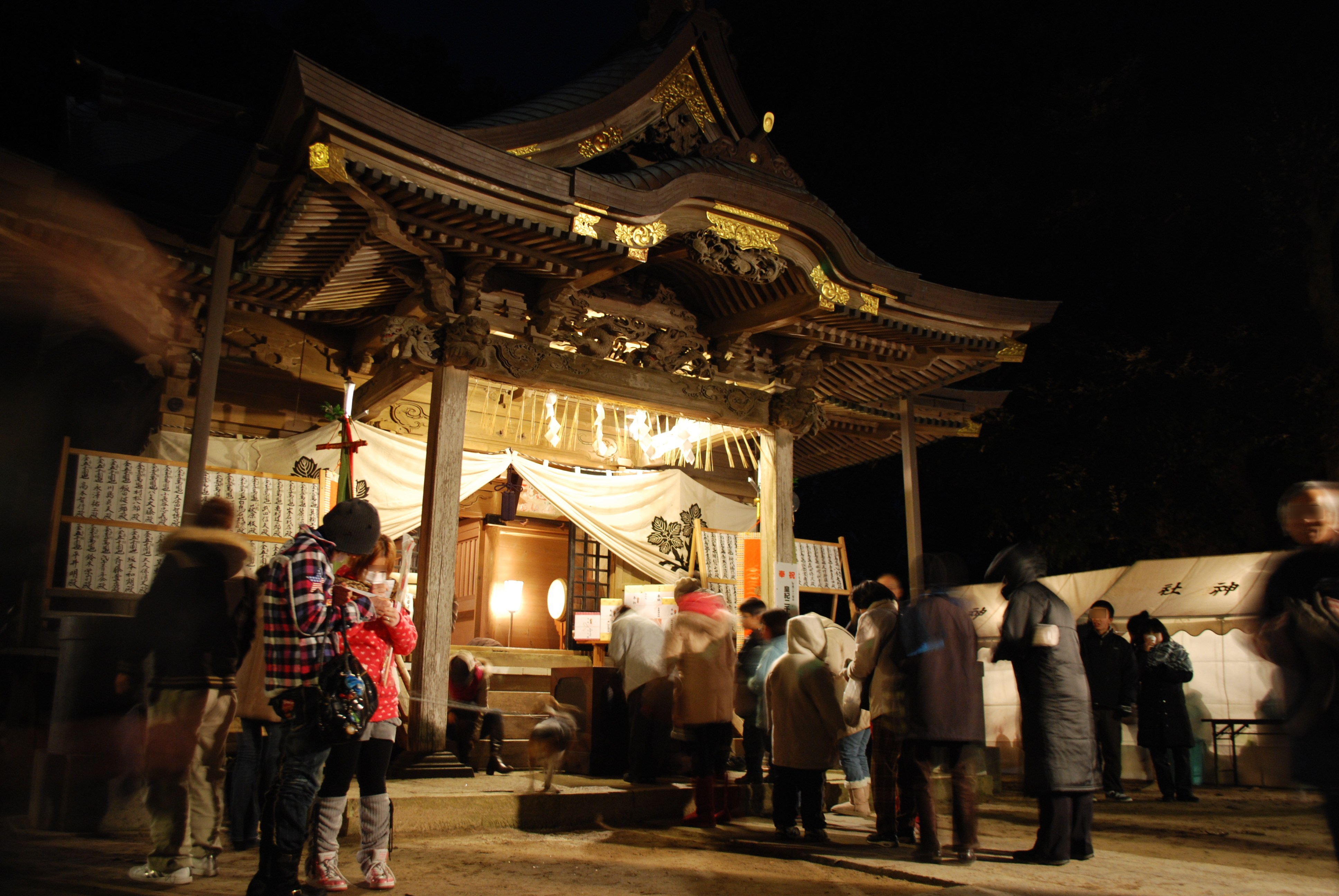 Gancho-mairi in Sawara Suwa-Shrine,katori-city,Japan. Hatsumōde is the first shrine visit of the New Year in Japan.